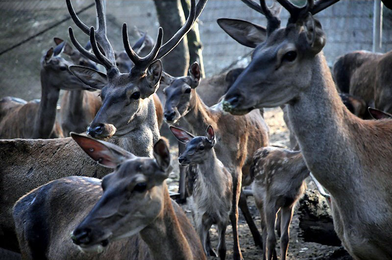 Marals at Semes Kandeh Animal Shelter in Sari County.